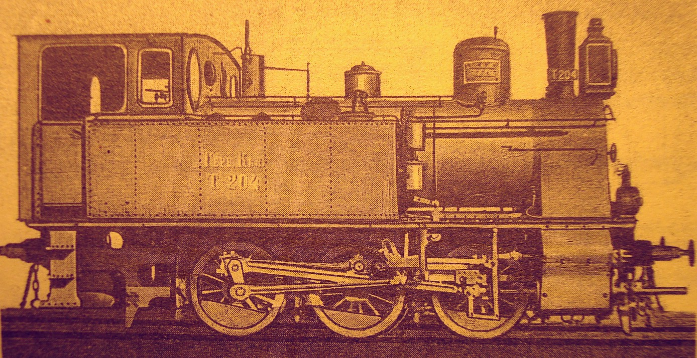 Russian tank loc type 118 by Kolomna Works